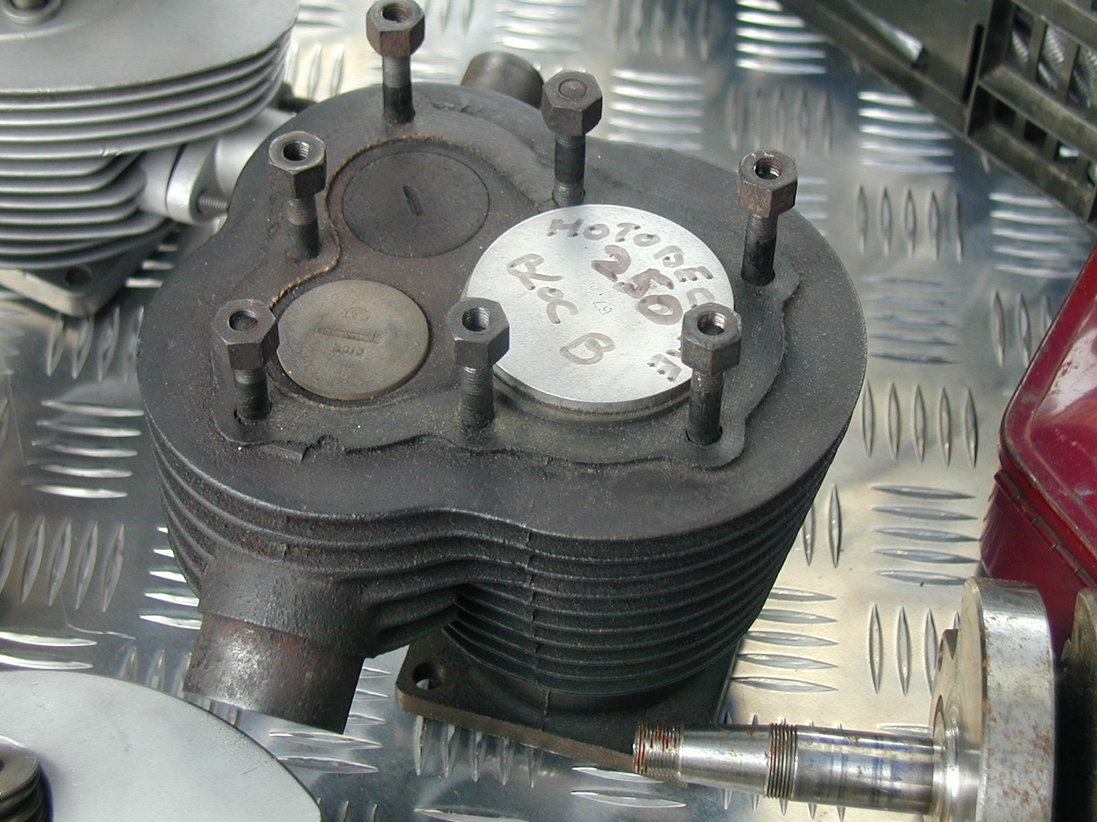 A cylinder with side valves, Motobecane 250 cm3